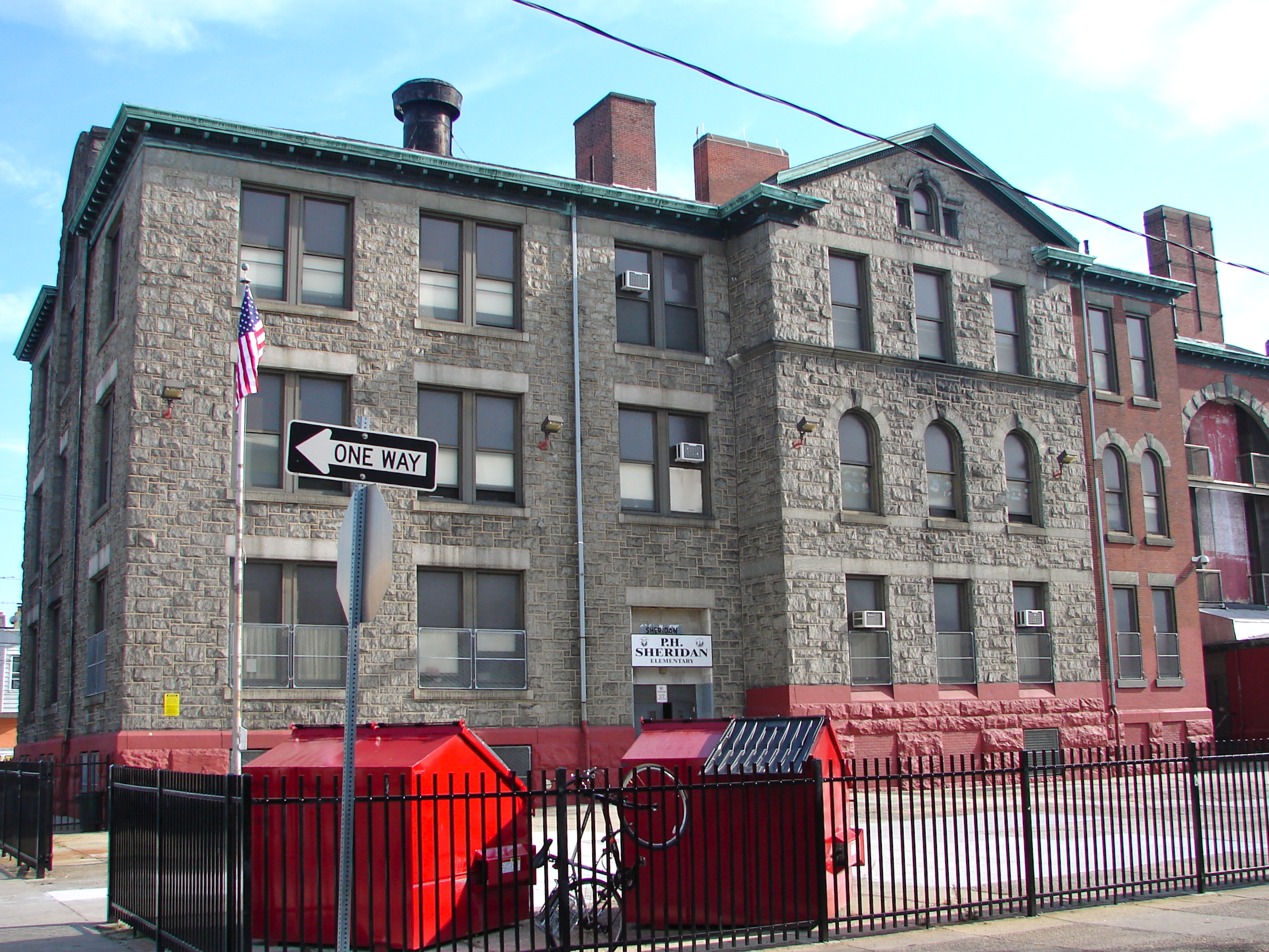 Philip H. Sheridan School in Philadelphia on the NRHP since November 18, 1988. At 800 East Ontario Street in the NE Philly neighborhood of Kensington.